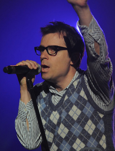 Weezer at the Cisco Ottawa Bluesfest, with no watermark. This file has been extracted from another file: Weezer eastscene.jpg